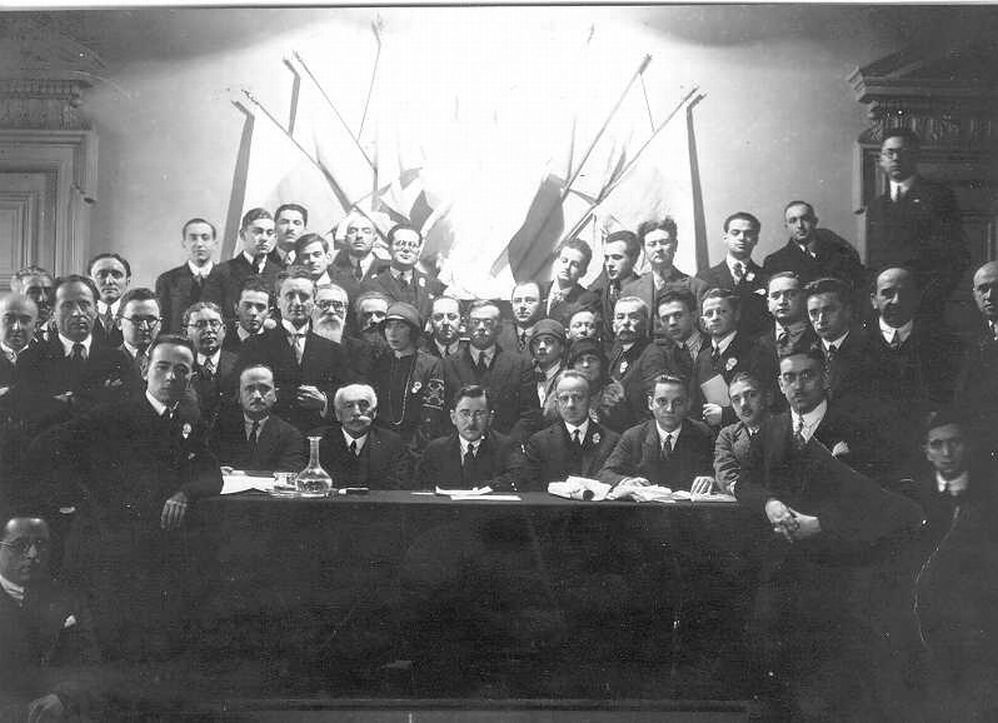 Zeev Jabotinsky at a Hatzohar Conference (likely in Paris, in the second half of the 20s).